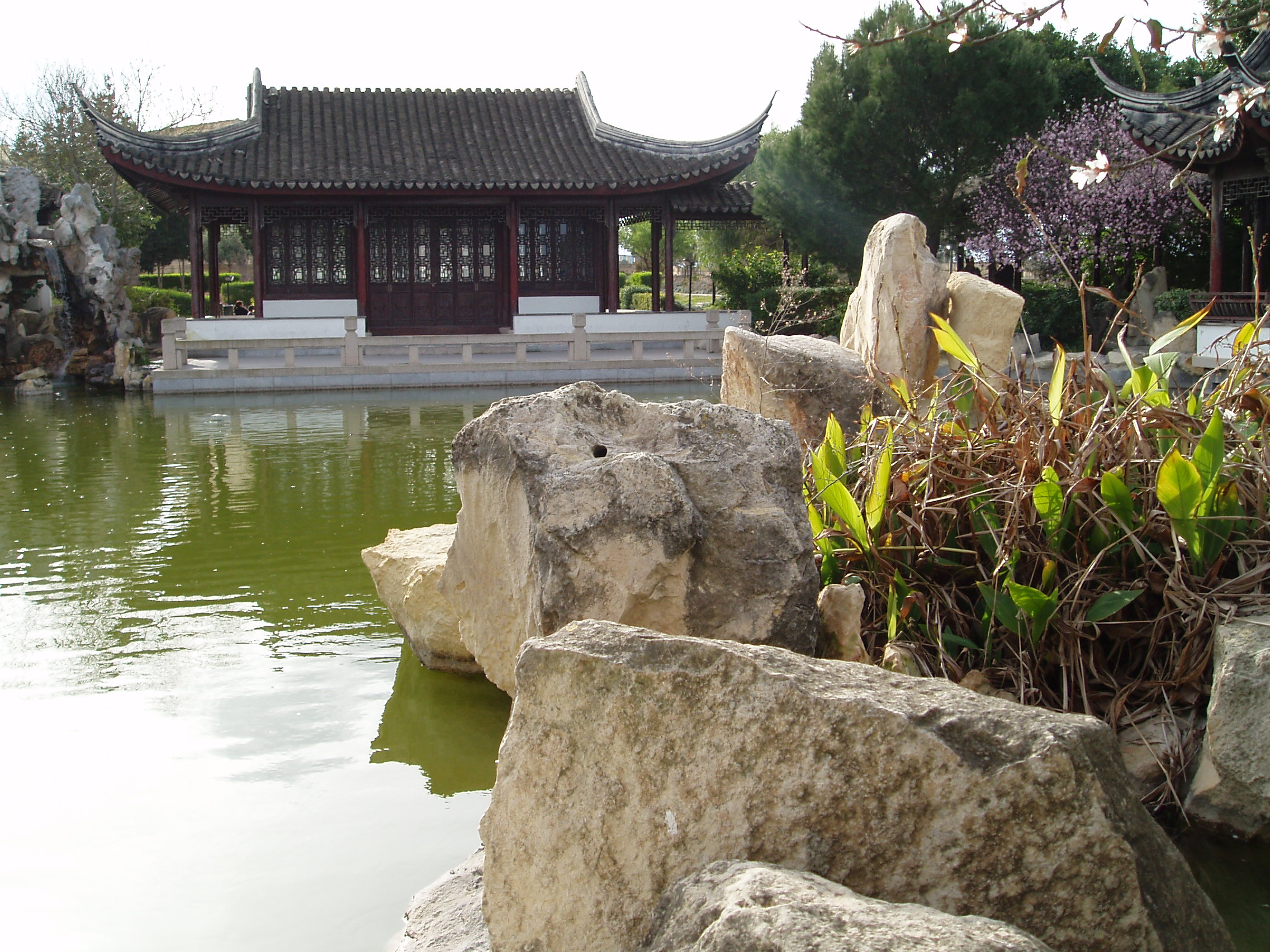 The Chinese Garden at Santa Lucija, Malta.